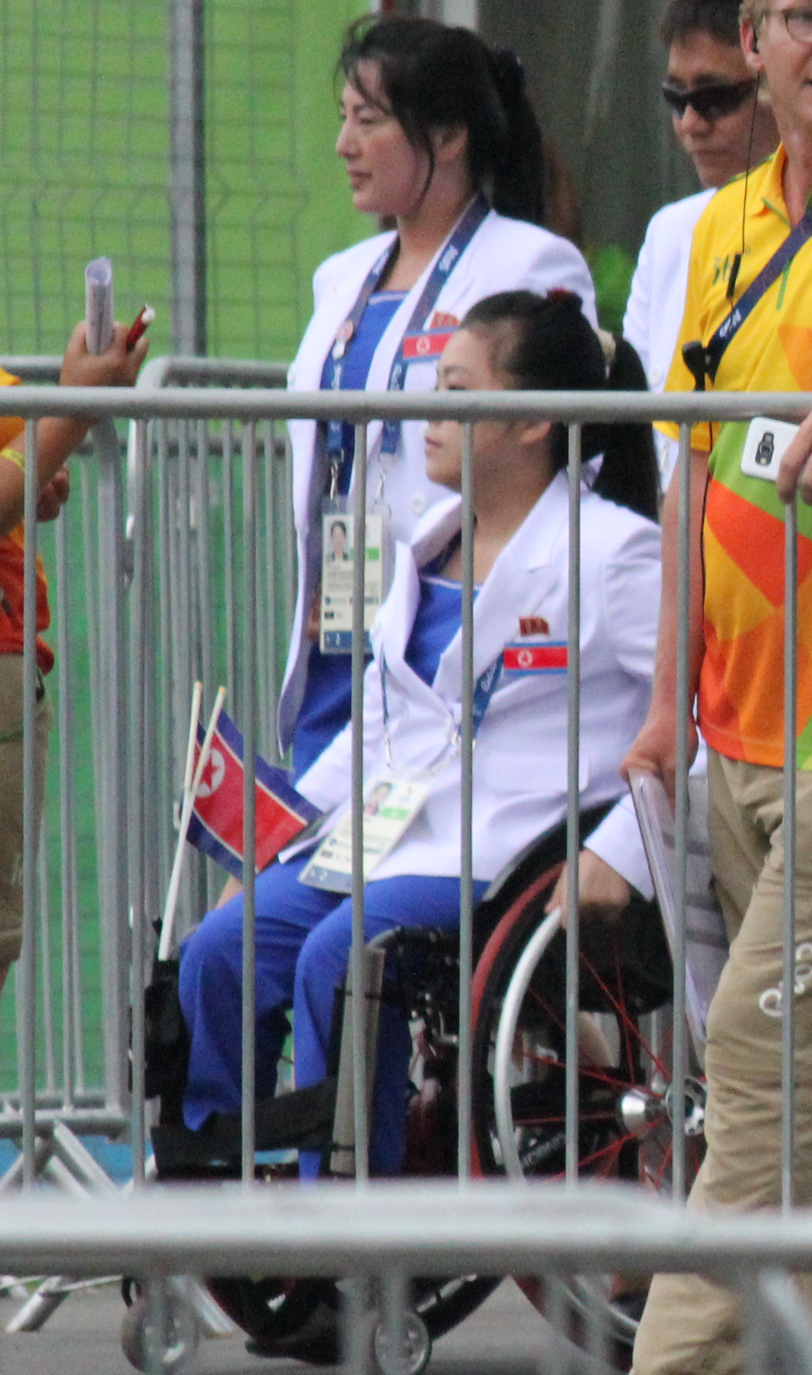 A member of the Paralympic community in the loading zone at the Paralympic Village ahead of the Opening Ceremonies.